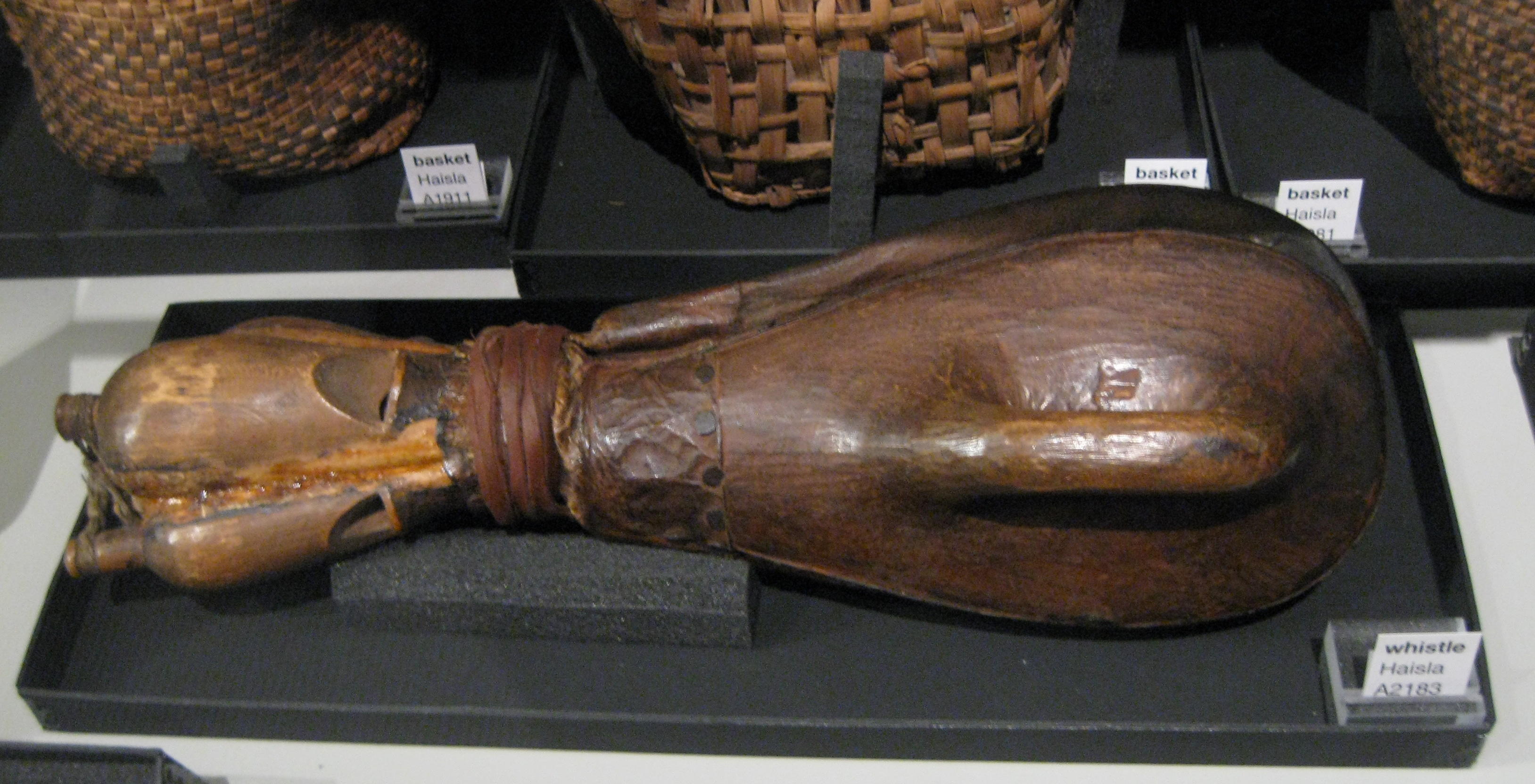 This rare item is a native American Haisla whistle which today forms part of the permanent collection of the UBC's Museum of Anthropology in Vancouver, Canada. Its catalogue number is A2183.